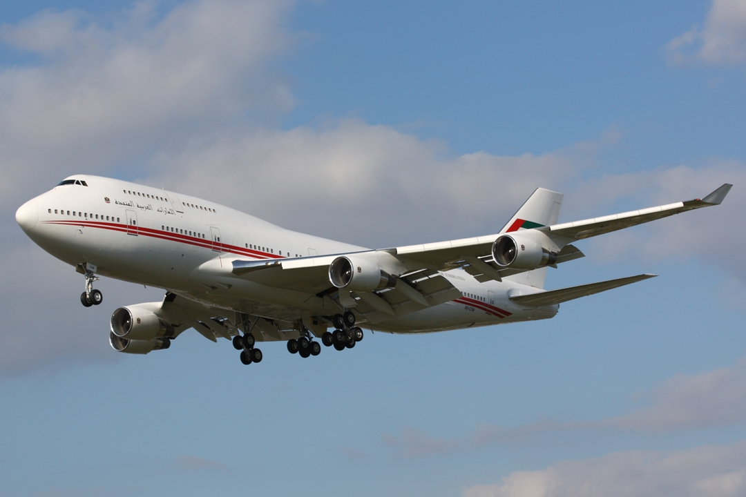 Ex Air Canada & Air india - B747-433, she first flew on 19th June 1991. Been with the Dubai Air wing since 1st June 2008. LHR 17/08/09.